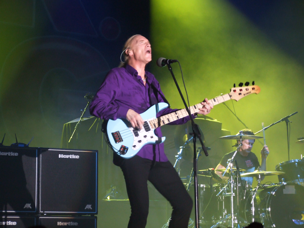 Mr.Big at Festivalna Hall, Sofia, Bulgaria.